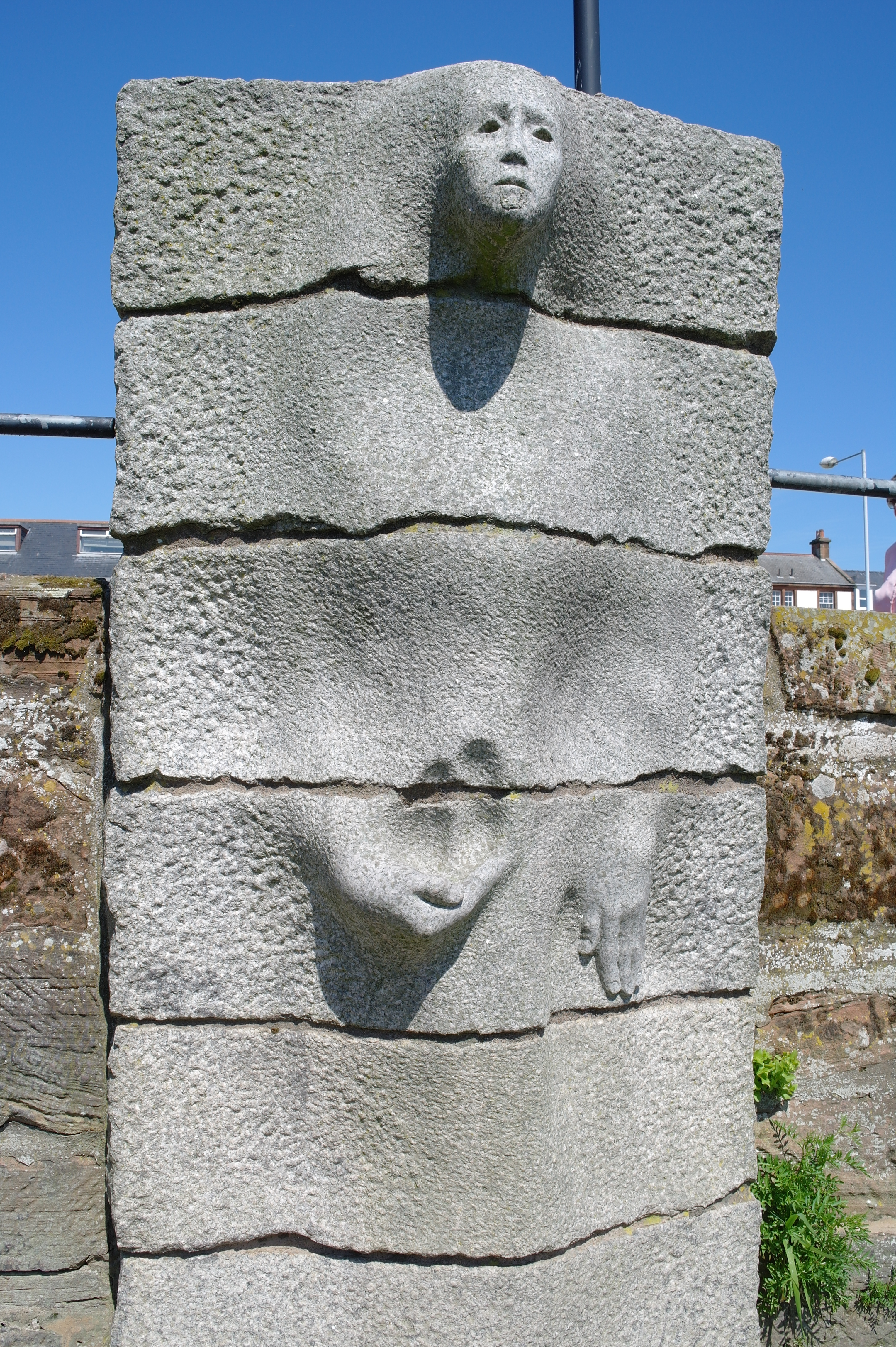 Sculpture of Dervorguilla in the River Nith, Dumfries.